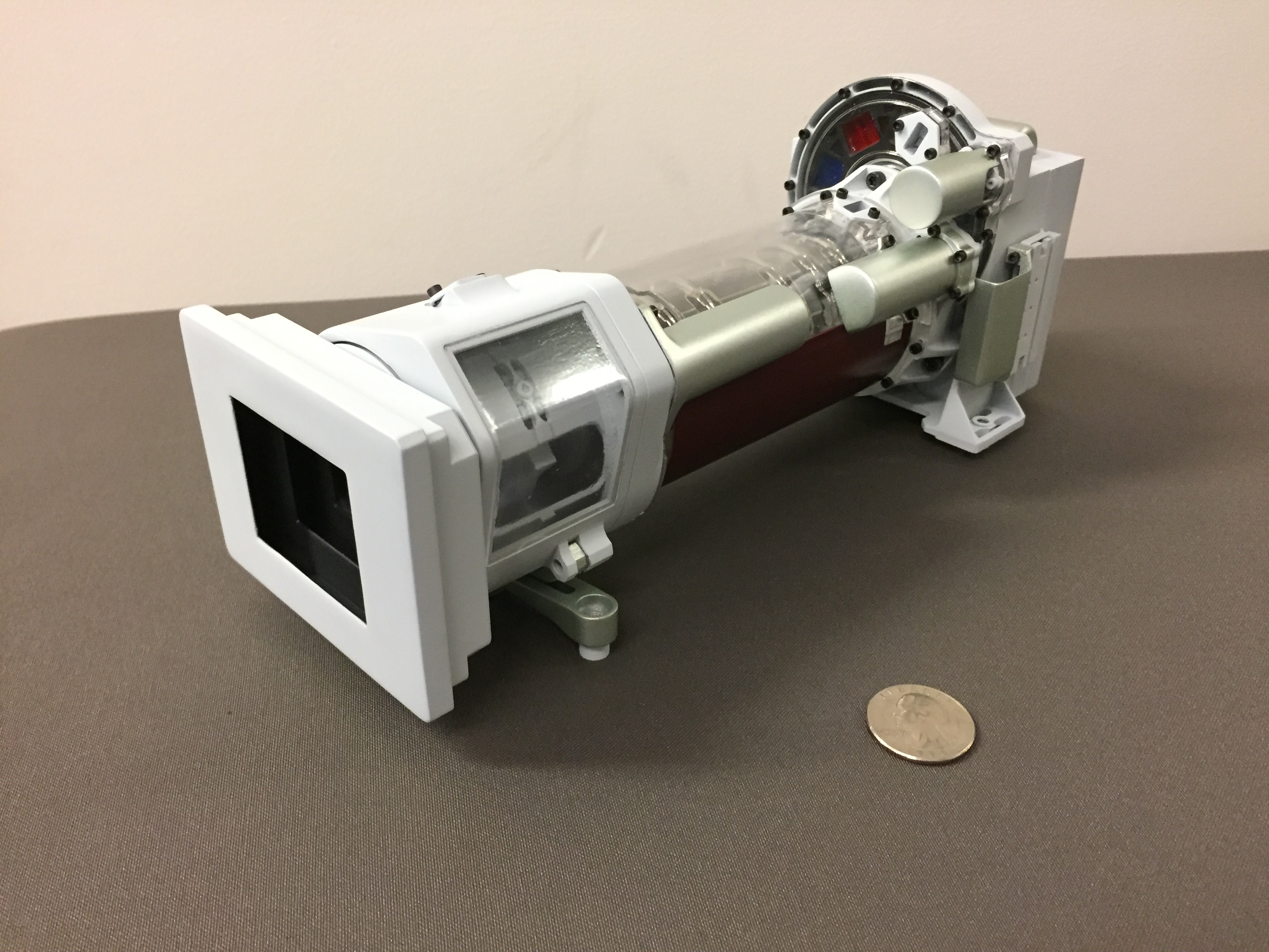 This image shows a 3-D printed model of Mastcam-Z, one of the science cameras on NASA's Mars 2020 rover. Mastcam-Z will include a 3:1 zoom lens.